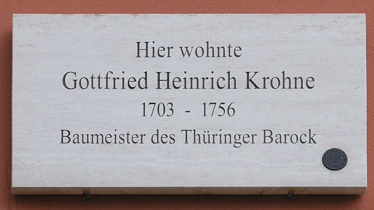 Memorial plaque, Gottfried Heinrich Krohne, Jakobstraße 15, Weimar, Germany Koordinate:52°58′53″N 11°19′48″E / 52.98139°N 11.33°E